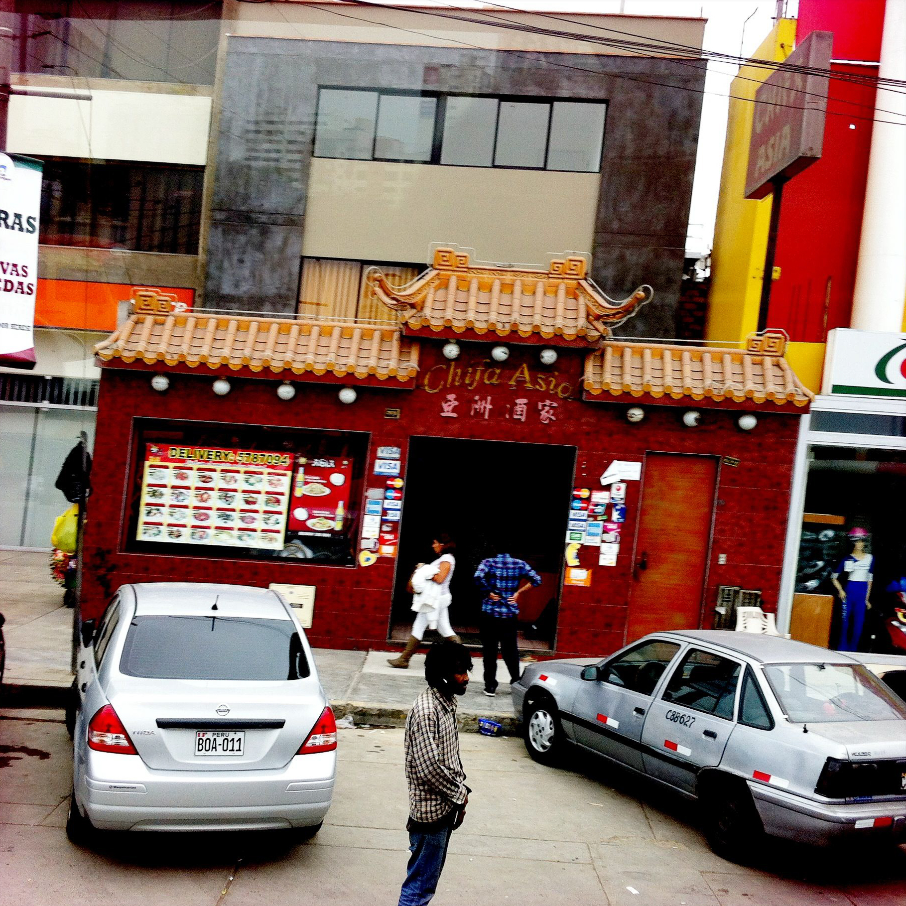 Chinese food (as cooked by Peruvians) is very popular. The generic term for such restaurants is "chifa".